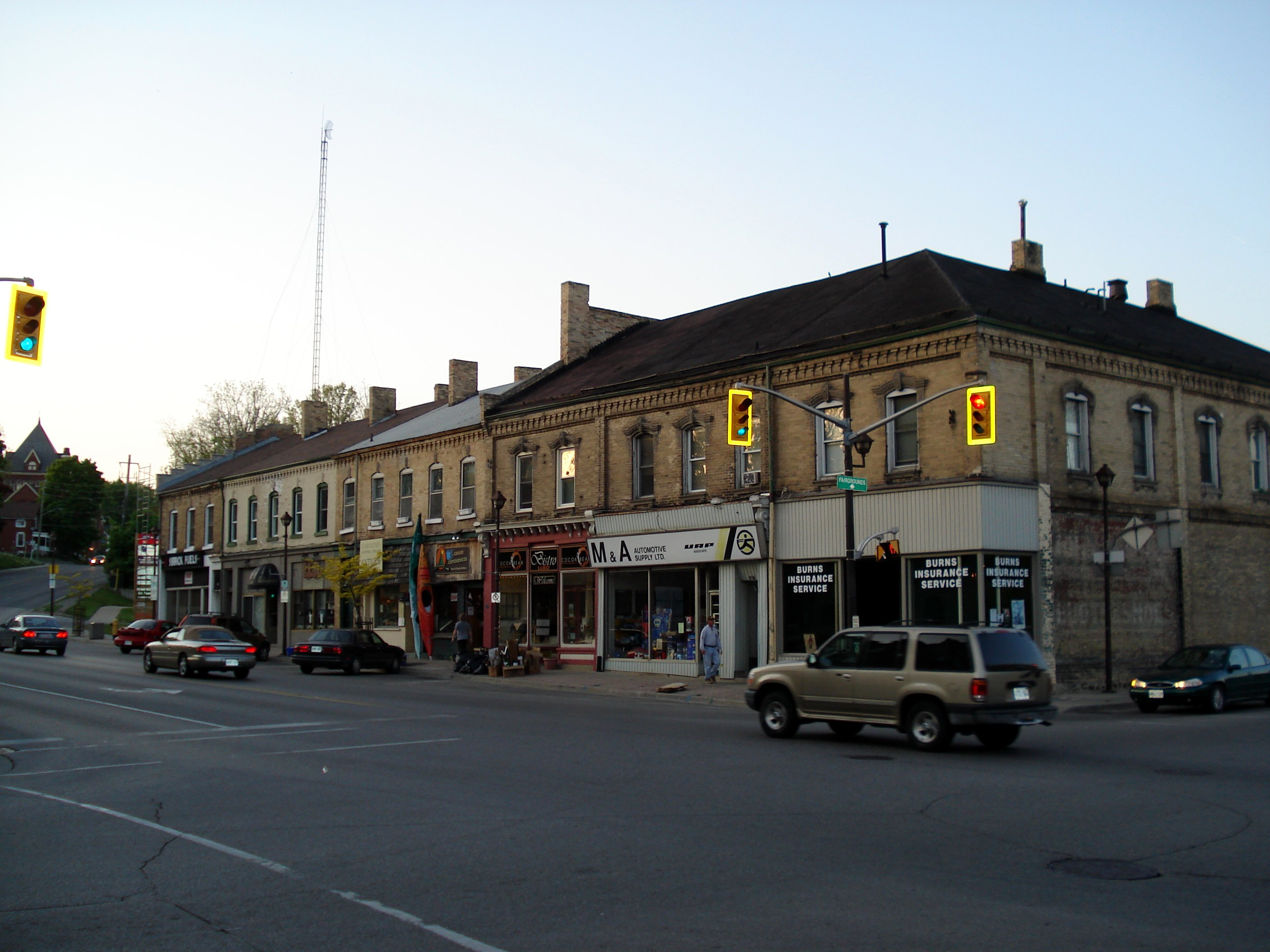 Street in Paris, Ontario